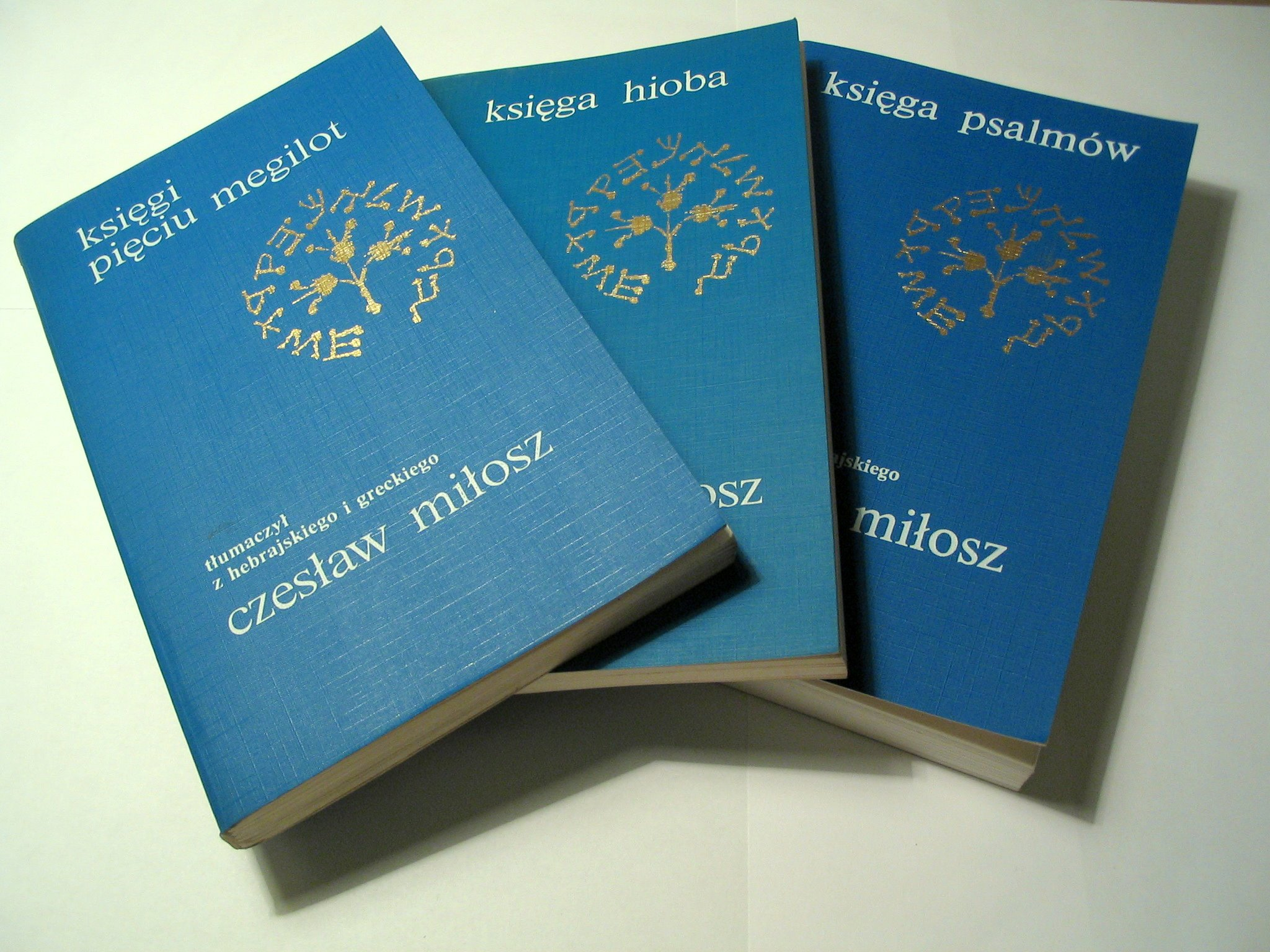 Bible translations to polish language by Czesław Miłosz. On the left Five Megillot, in center Book of Job, on right Psalms